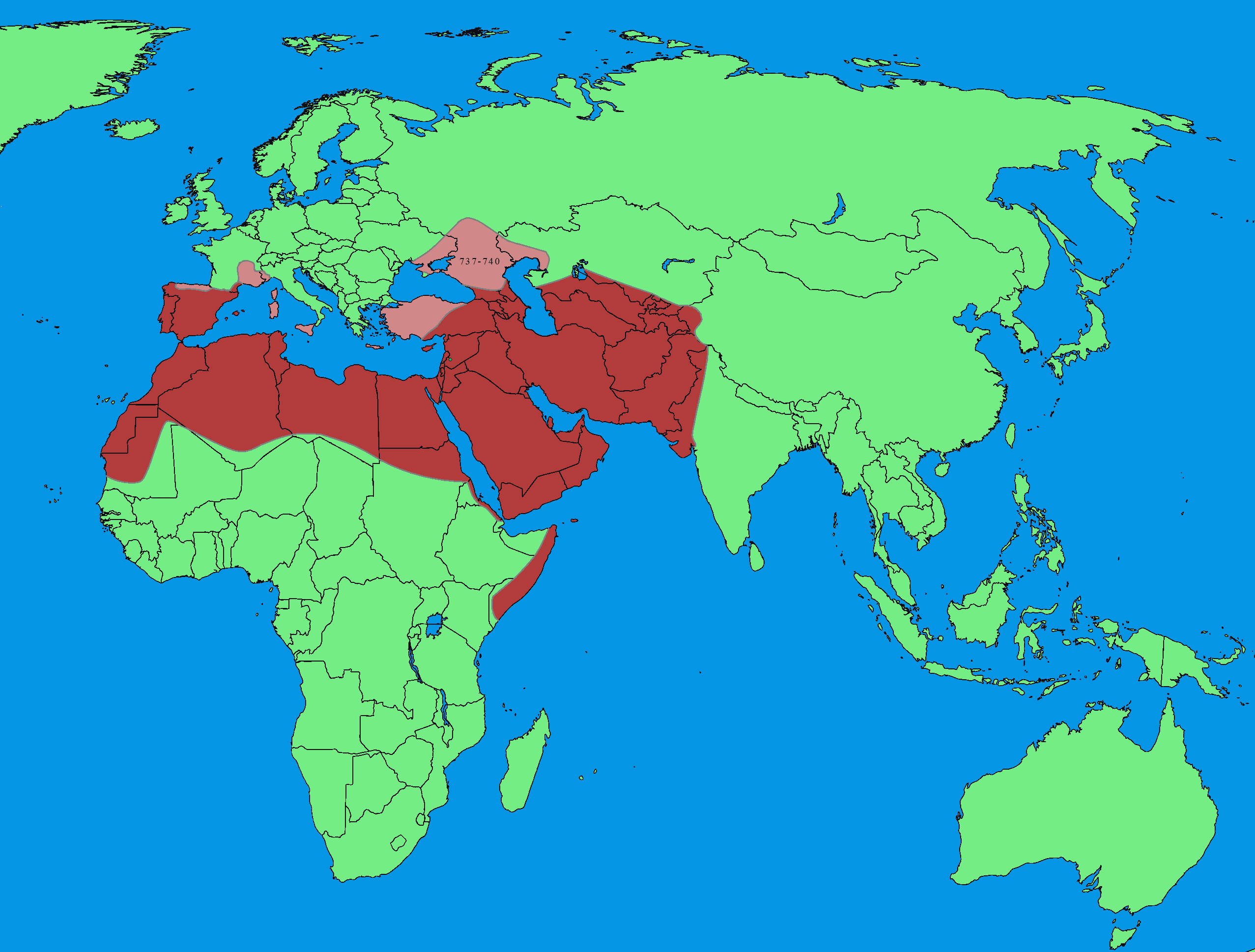 Map of the Umayyad Caliphate